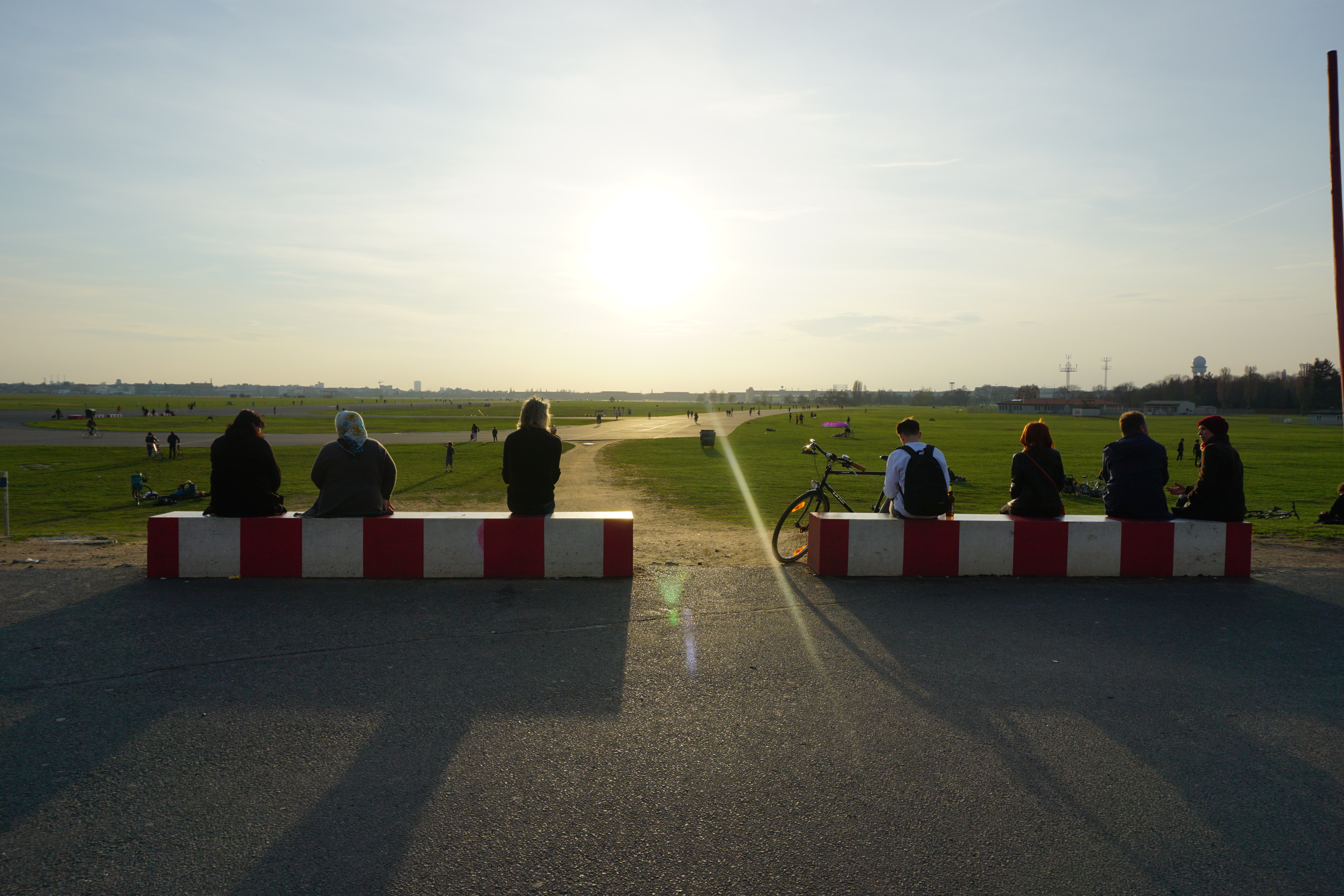 Tempelhof airport, 30 March 2017